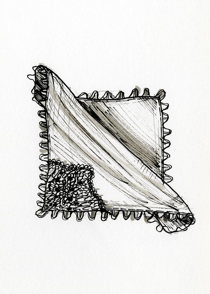 Drawing of the Thesaurus concept : 'handkerchief'. Pieces of cloth, usually square, varying in size and material, carried for usefulness or as a costume accessory. (AAT)